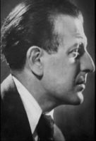 Gustav Ucicky, photo 1930